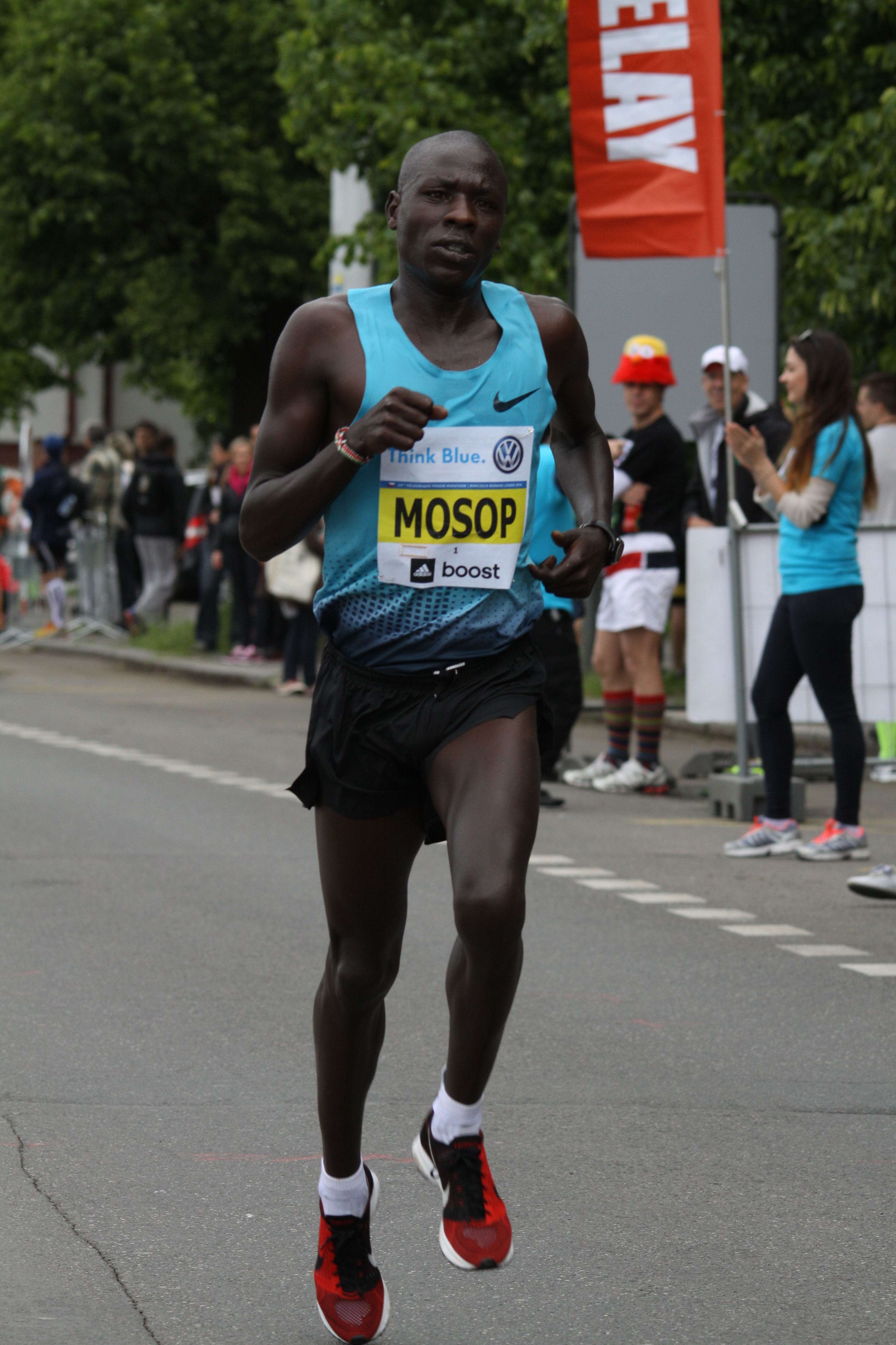 Moses Mosop. Prague International Marathon in 2014, Czech Republic